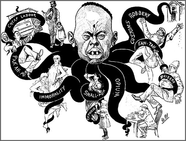 cartoon depicting the fear of chinese immigration to Sydney, Australia